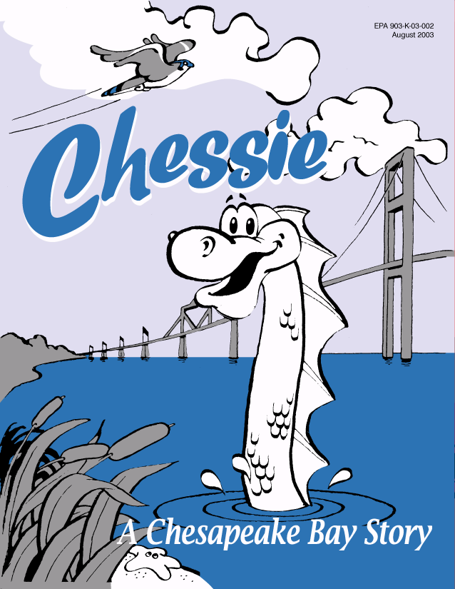 Cover for the coloring book, Chessie: A Chesapeake Bay Story, originally published by the U.S. Fish and Wildlife Service, more recently published by the Environmental Protection Agency Published by the Environmental Protection Agency in August 2003, previously published by the U.S. Fish and Wildlife Service in 1986.